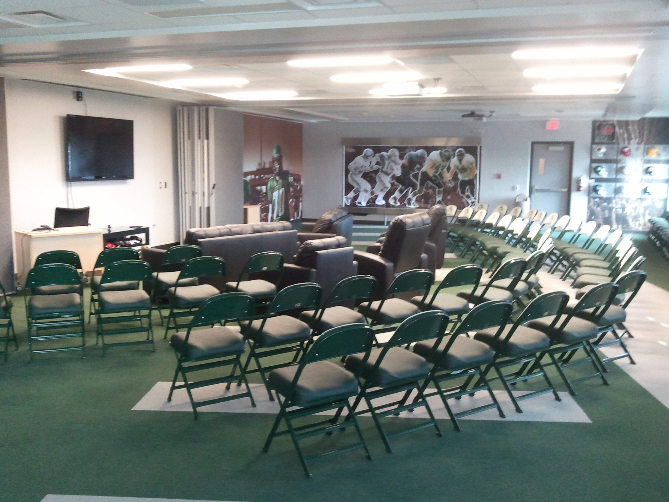 Meeting Room Graham Huskies Clubhouse